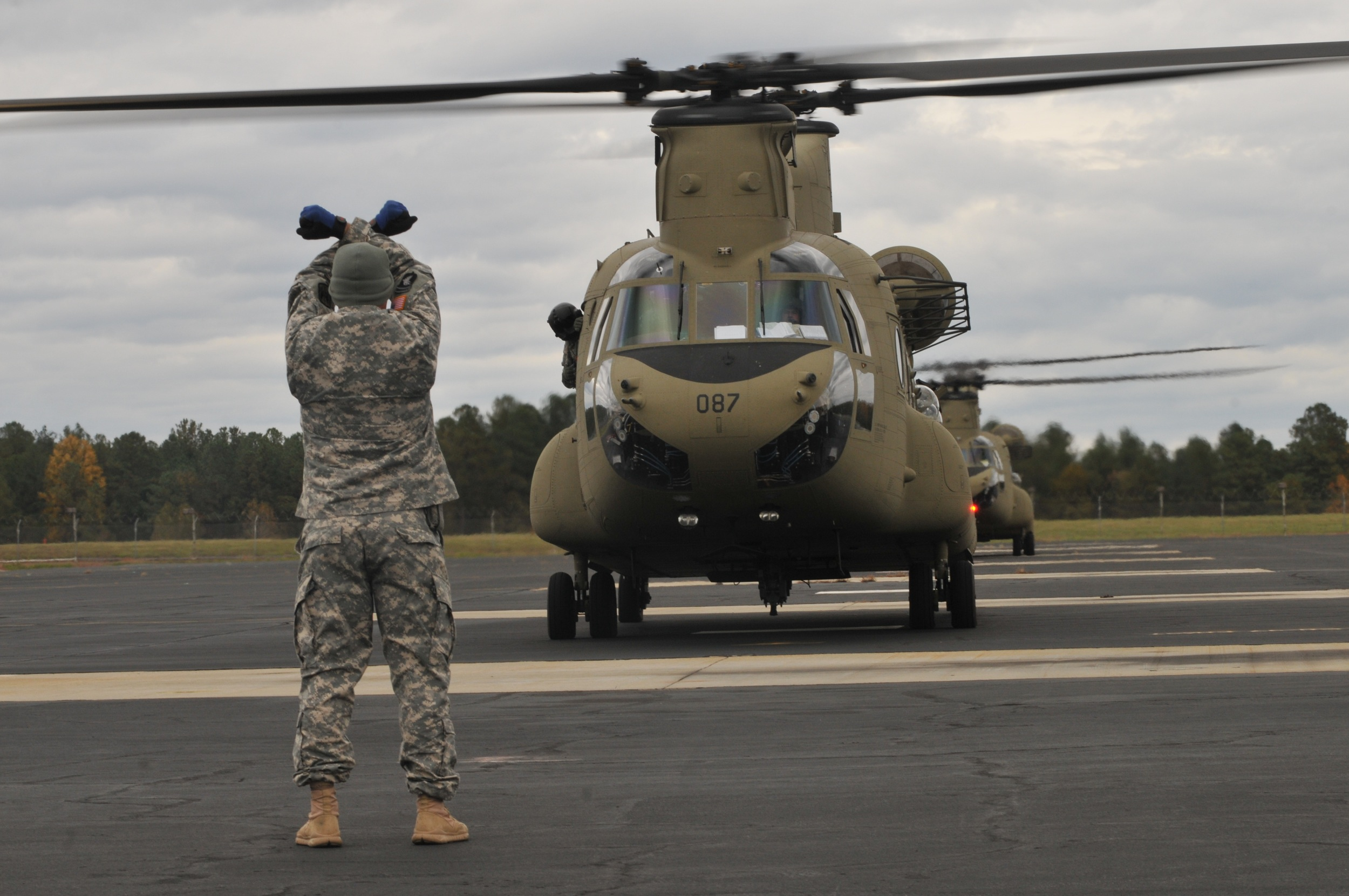 Chinooks from Alabama and Georgia National Guard refuel at North Carolina National Guard Flight Facility One before deploying in support of Hurricane Sandy. (Photo by TSgt Brian Christiansen, NCNG Public Affairs)